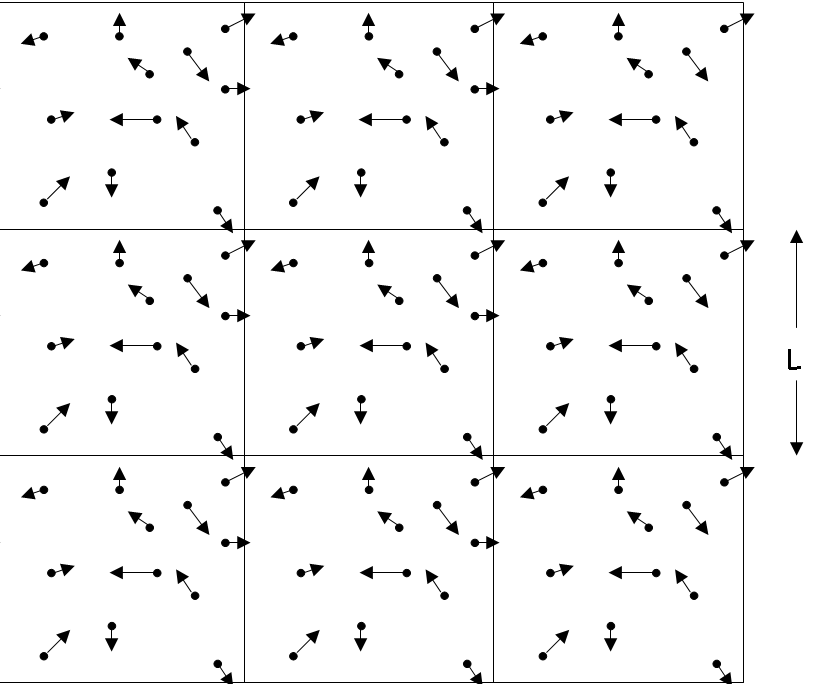 Periodic model condition of Born-Von Karman